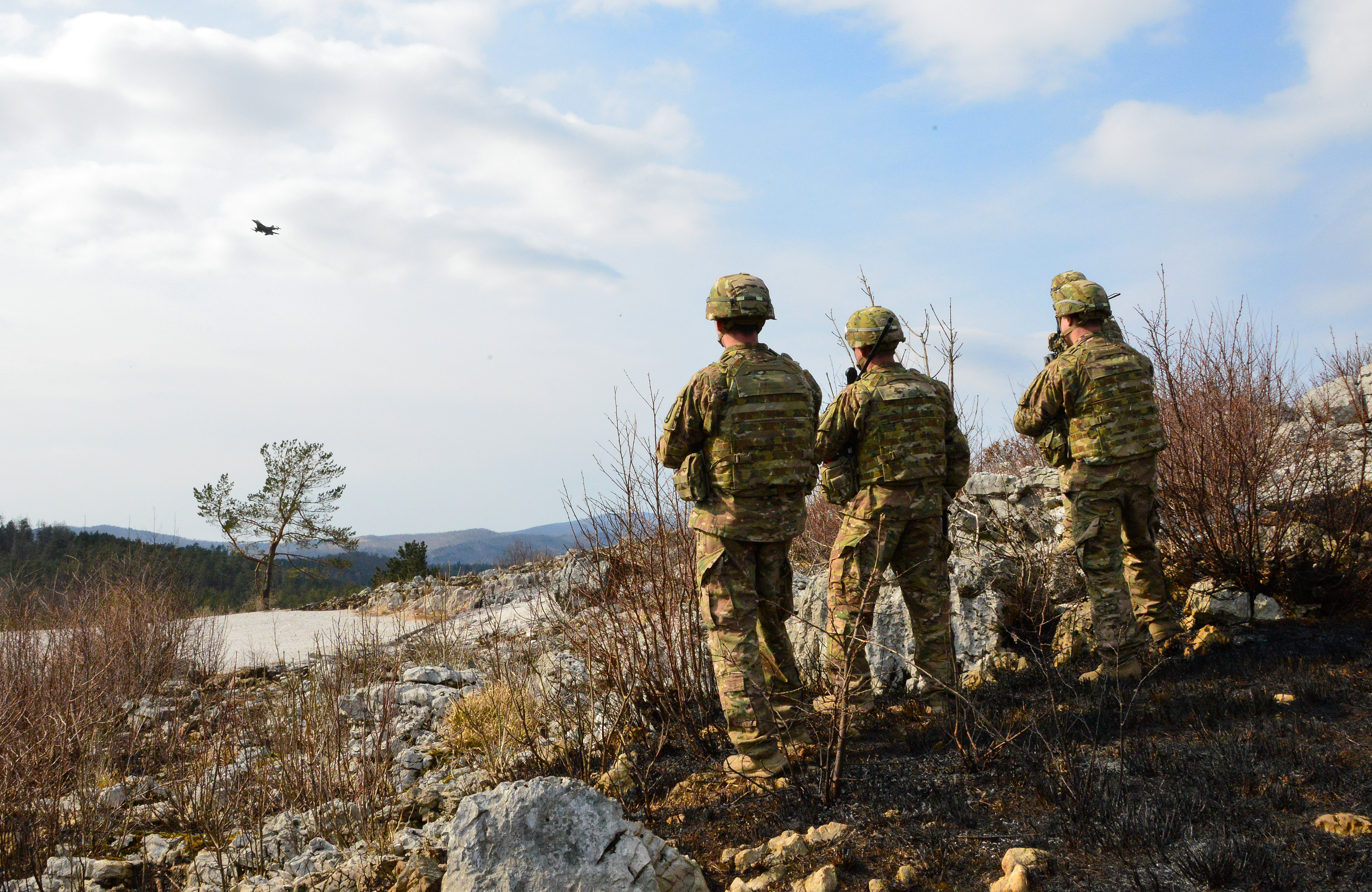 U.S. Army paratroopers assigned to the Company B, 2nd Battalion, 503rd Infantry Regiment, 173rd Airborne Brigade, observe a U.S. Air Force F-16 Falcon during close air support training at Pocek Range in Postonja, Slovenia, March 12, 2015. (U.S. Army photo by Visual Information Specialist Davide Dalla Massara/Released)